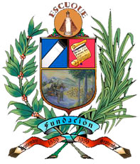 escudo del municipio Escuque